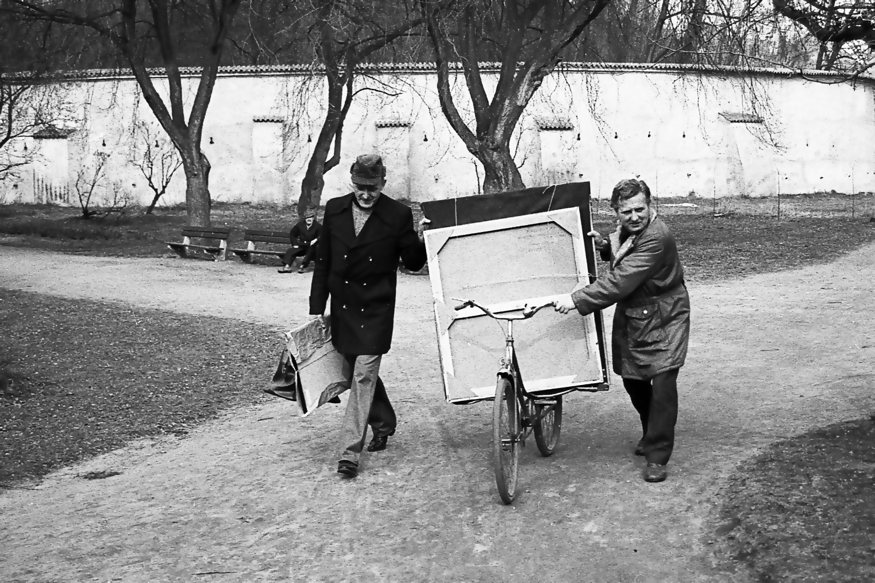 Jan Adamec Josef Prochazka a Bedrich Novotny 1980